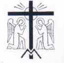 Emblem of the Order of Regular Canons of the Holy Cross (of Coimbra, Portugal), from a book publ. c. 1900